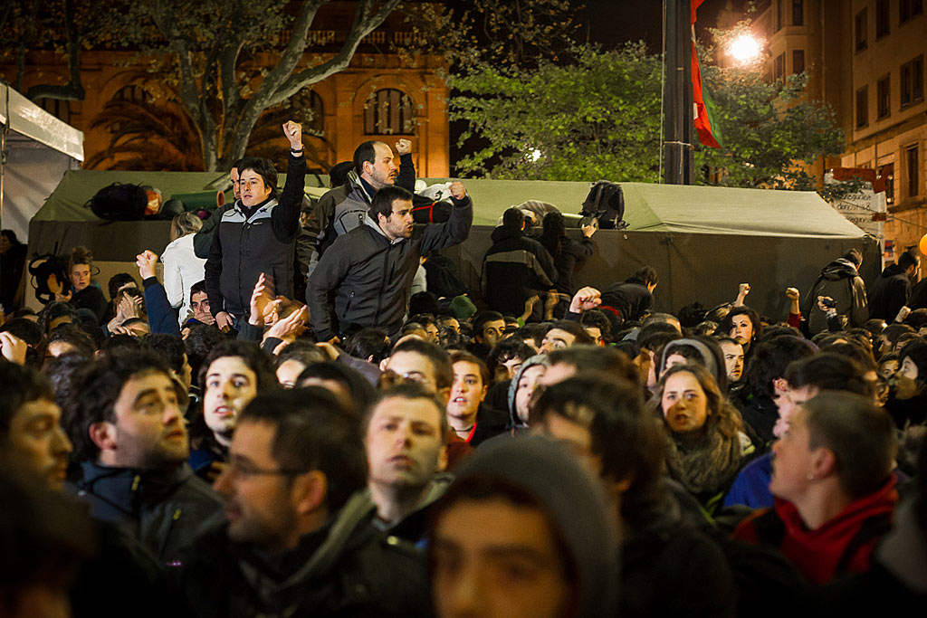 Police operation against Askegunea, 2013 april.